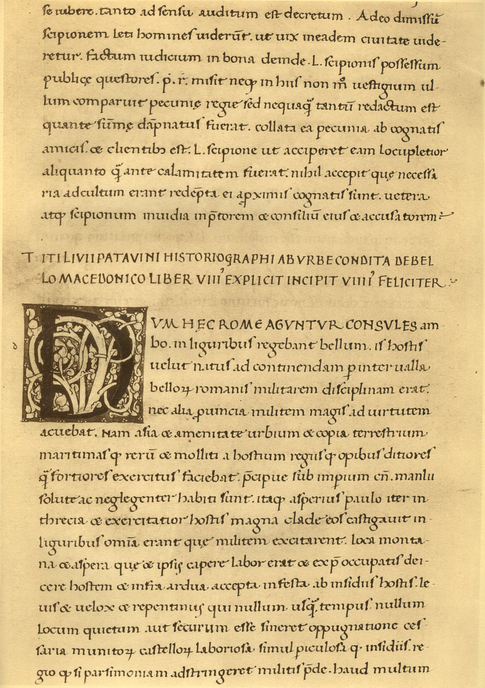 Livy, Ab urbe condita, end of Book 38 und beginning of Book 39 in a manuscript written by Poggio Bracciolini. Biblioteca Apostolica Vaticana, Vaticanus latinus 3331, fol. 156v.